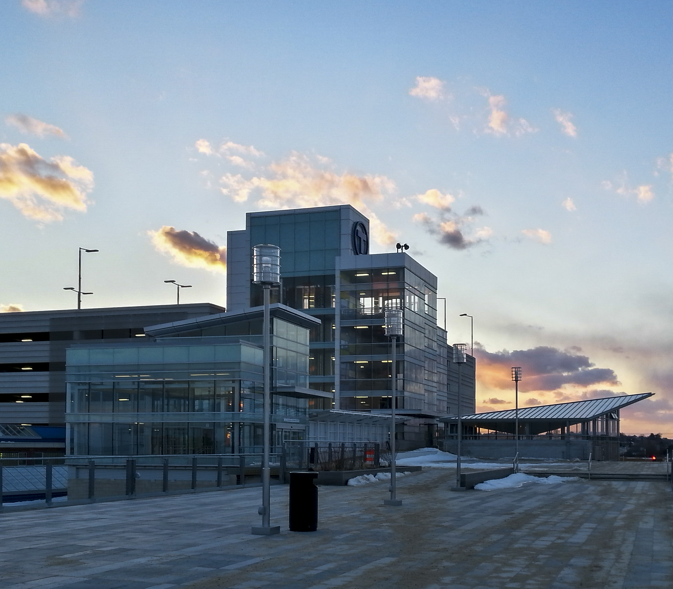 Elevated pedestrian plaza and garage at Wonderland station at sunset